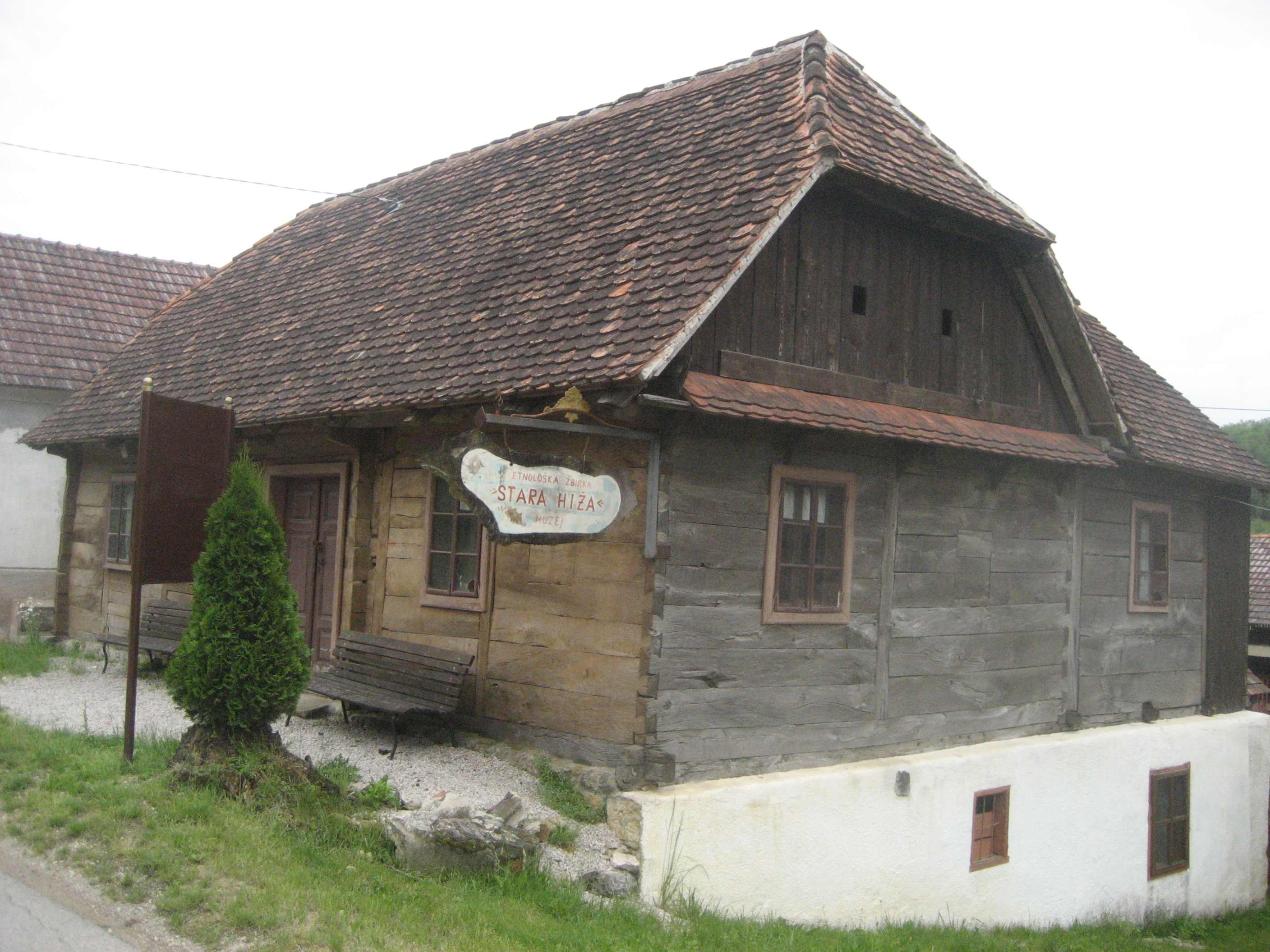 Old House Krasic, Croatia